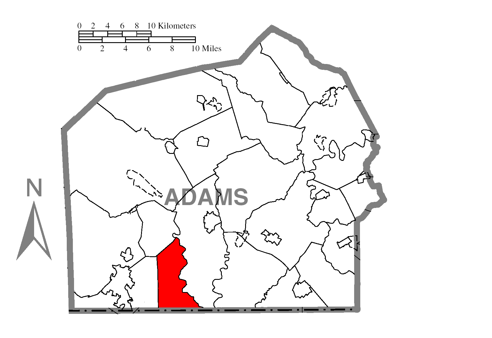 A map of Adams County showing Freedom Township, Pennsylvania (alternate) highlighted on the map.